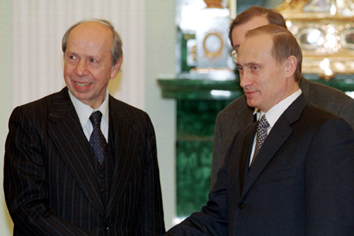 THE KREMLIN, MOSCOW. With Italian Foreign Minister Lamberto Dini.